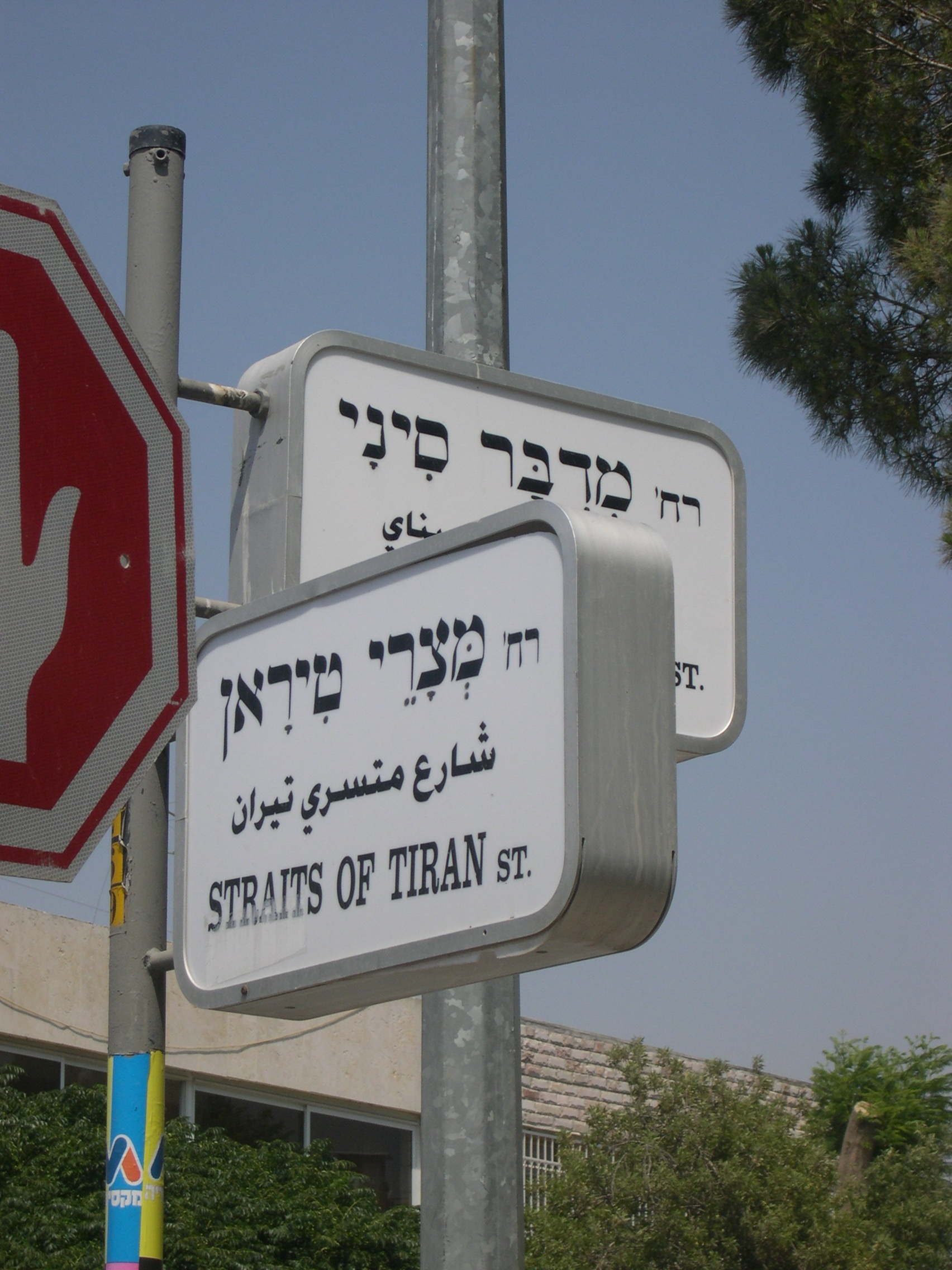 A street sign in Giv'at HaMivtar, Jerusalem